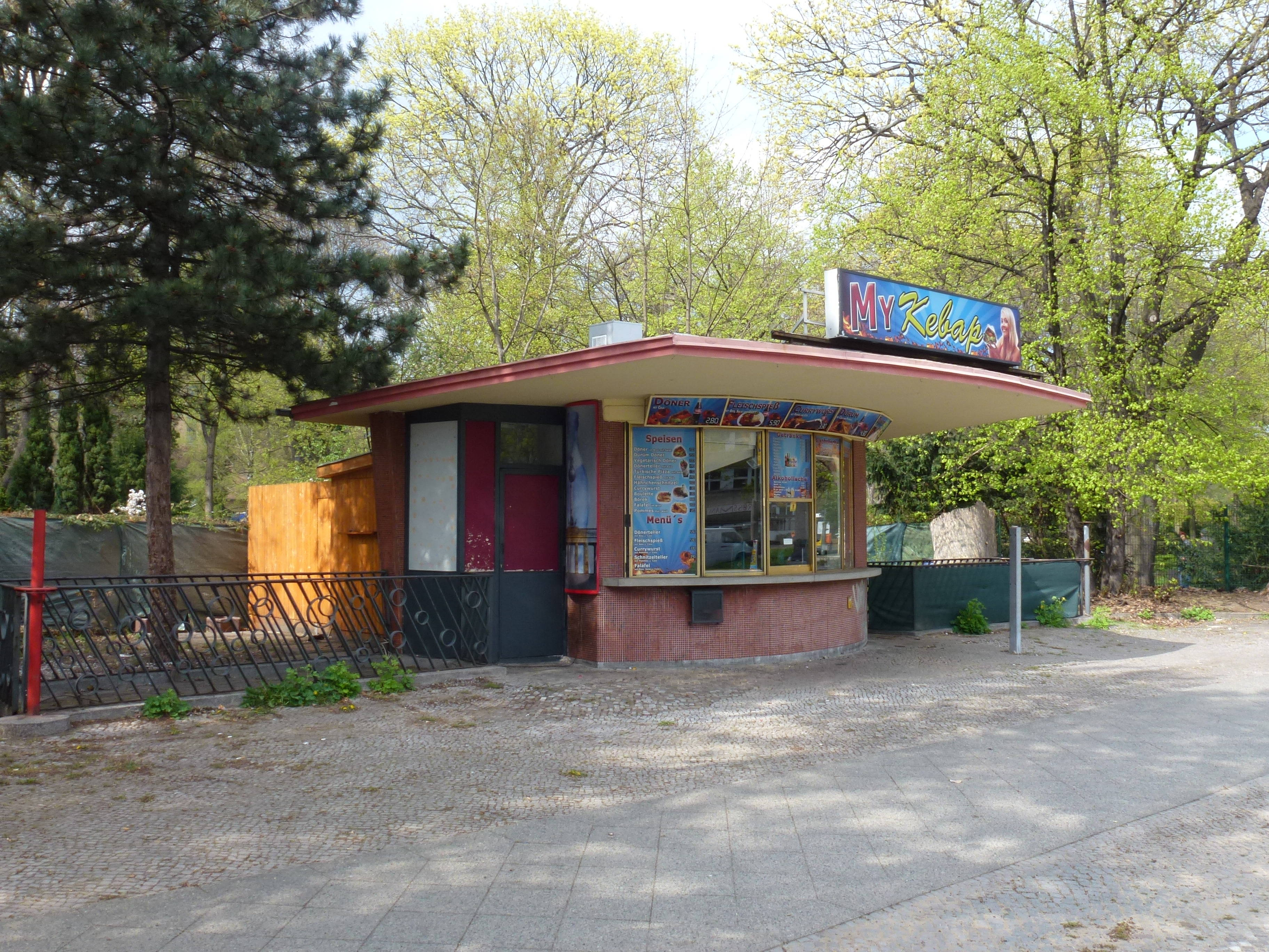 Berlin-Wedding Seestraße Kiosk